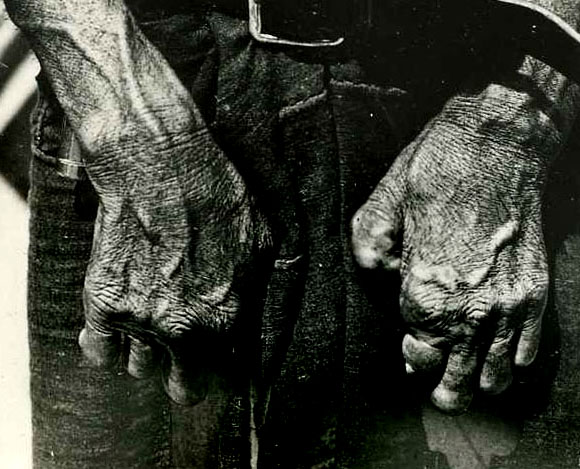 67. A and B. Old neural case which has become lepromatous. Showing bone absorption. Contributed by Major Buker O.S.G. [Office of the Surgeon General] taken in Ching Mai, Thailand. [Clinical photograph. Leprosy.]